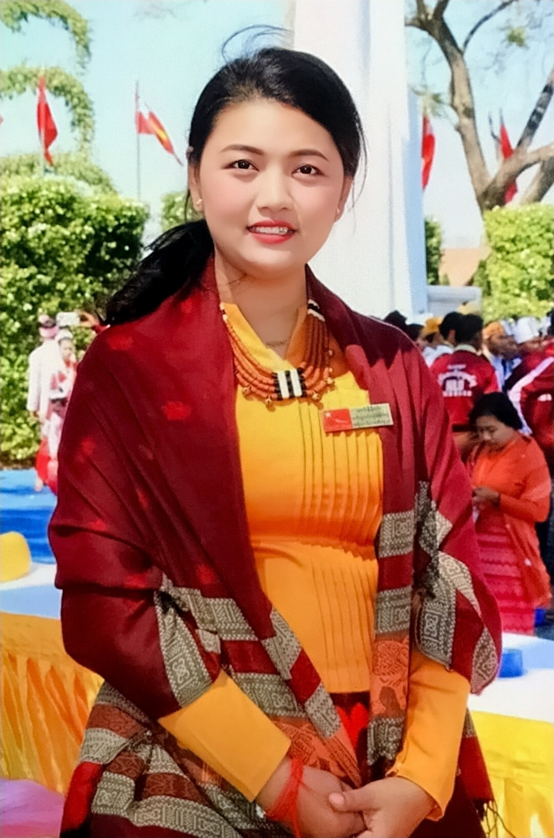 Regional MP Zin Ni Ni Win from Pakokku Township № 2 constituency.